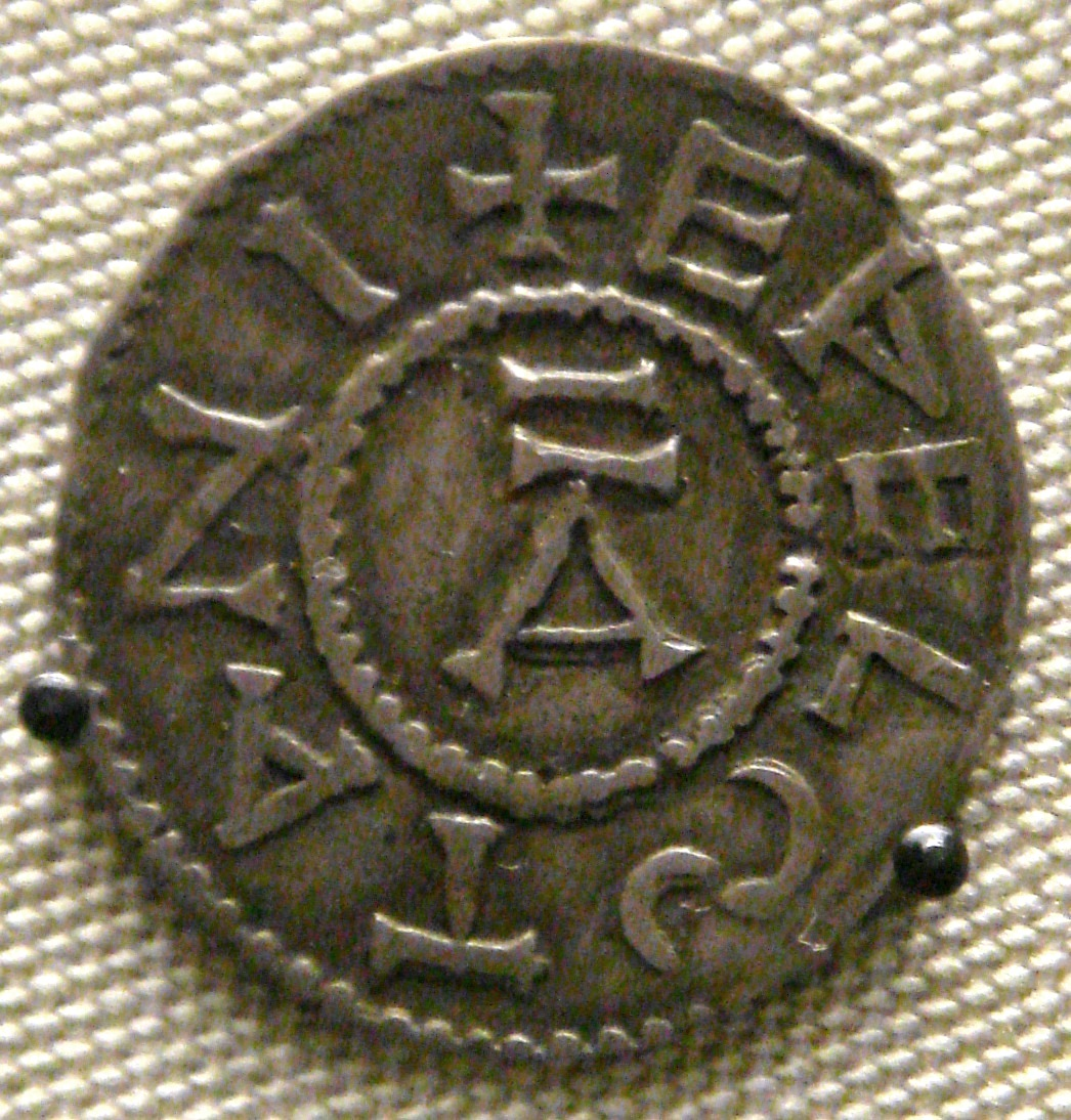 Aethelstan